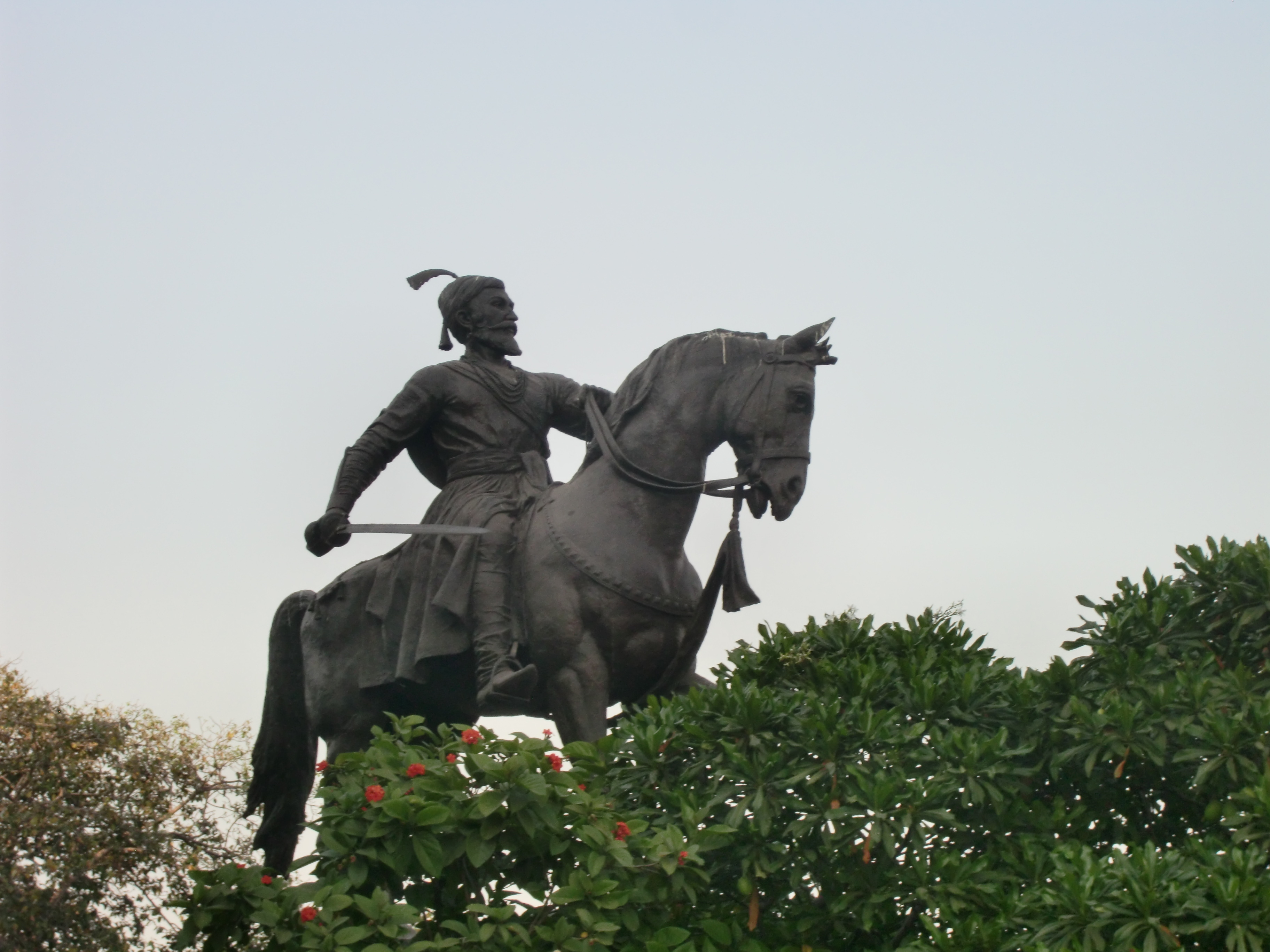 statue in Colaba facing the Gateway of India